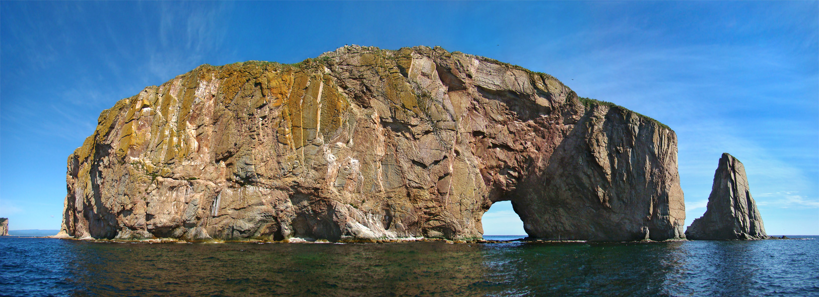 Percé Rock, Gaspésie–Îles-de-la-Madeleine, Quebec, Canada.